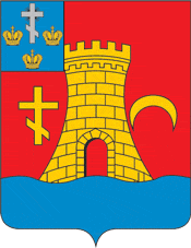 Coat of Arms of Ochakiv Mykolaiv Oblast Ukraine